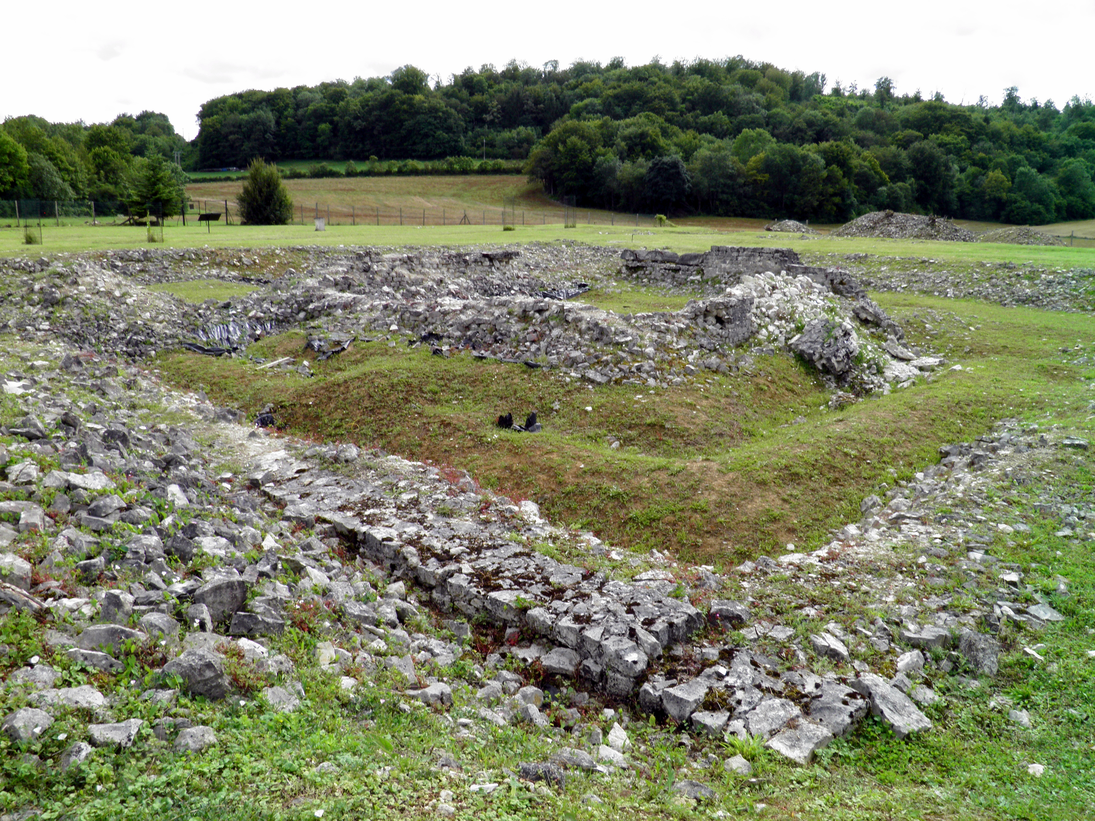 The Fanum, small Gallo-Roman temple, Nasium, France